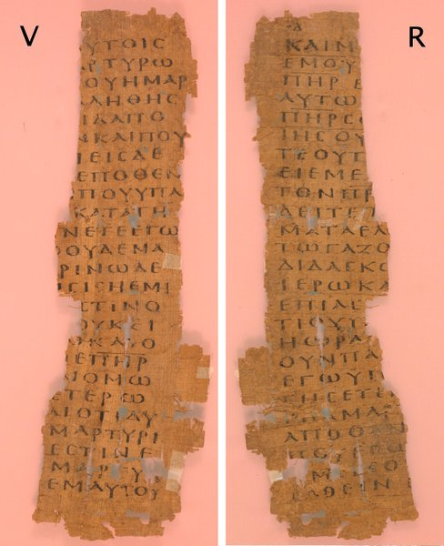 Fragment with text of John 8:14-22